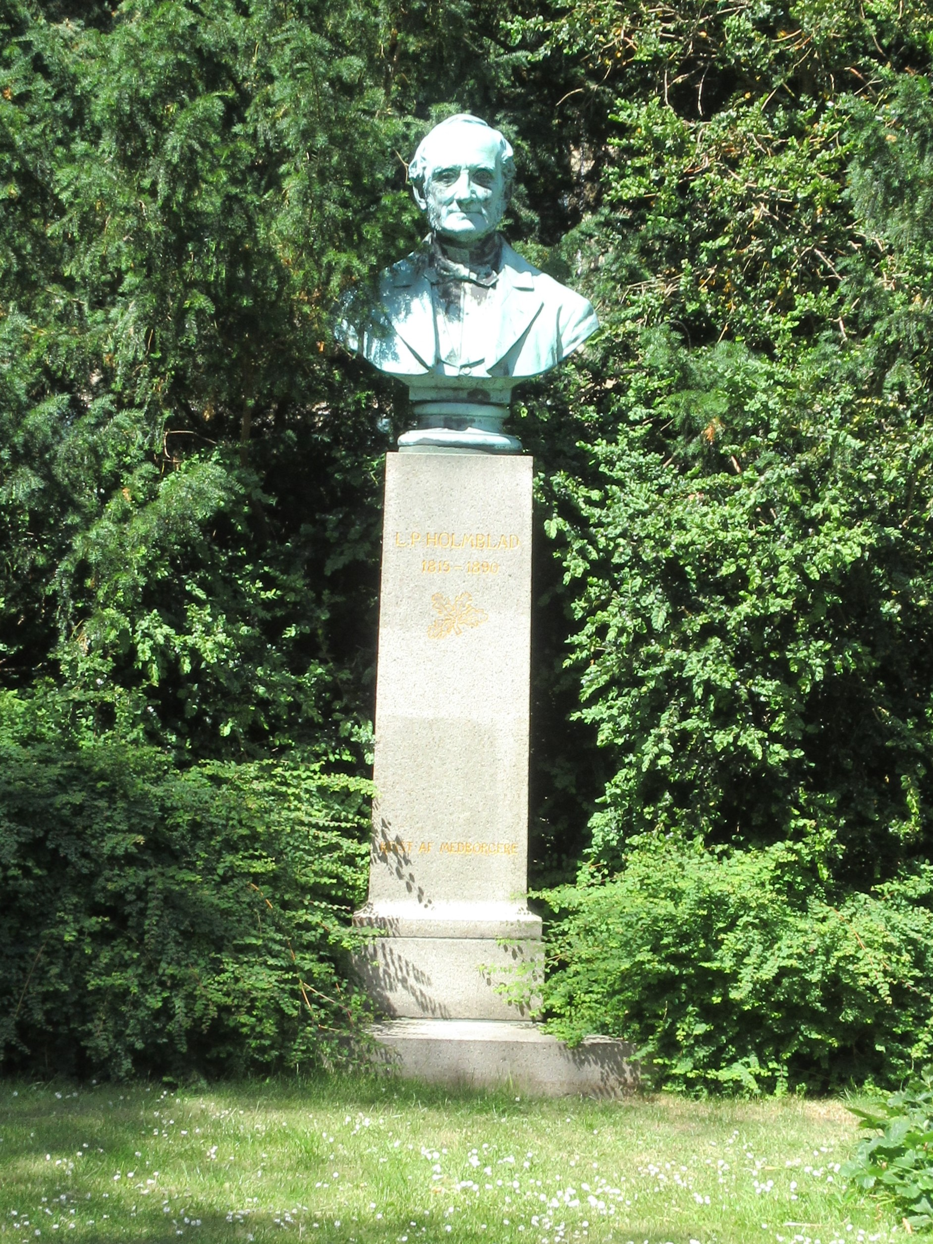 Bust of Lauritz P. Holmblad in one of the courtyards of Amager Hospital in Copenhagen, Denmark